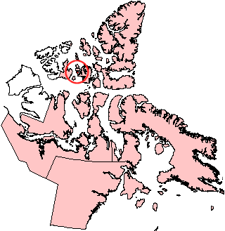 Map showing the location of Alexander Island, Nunavut